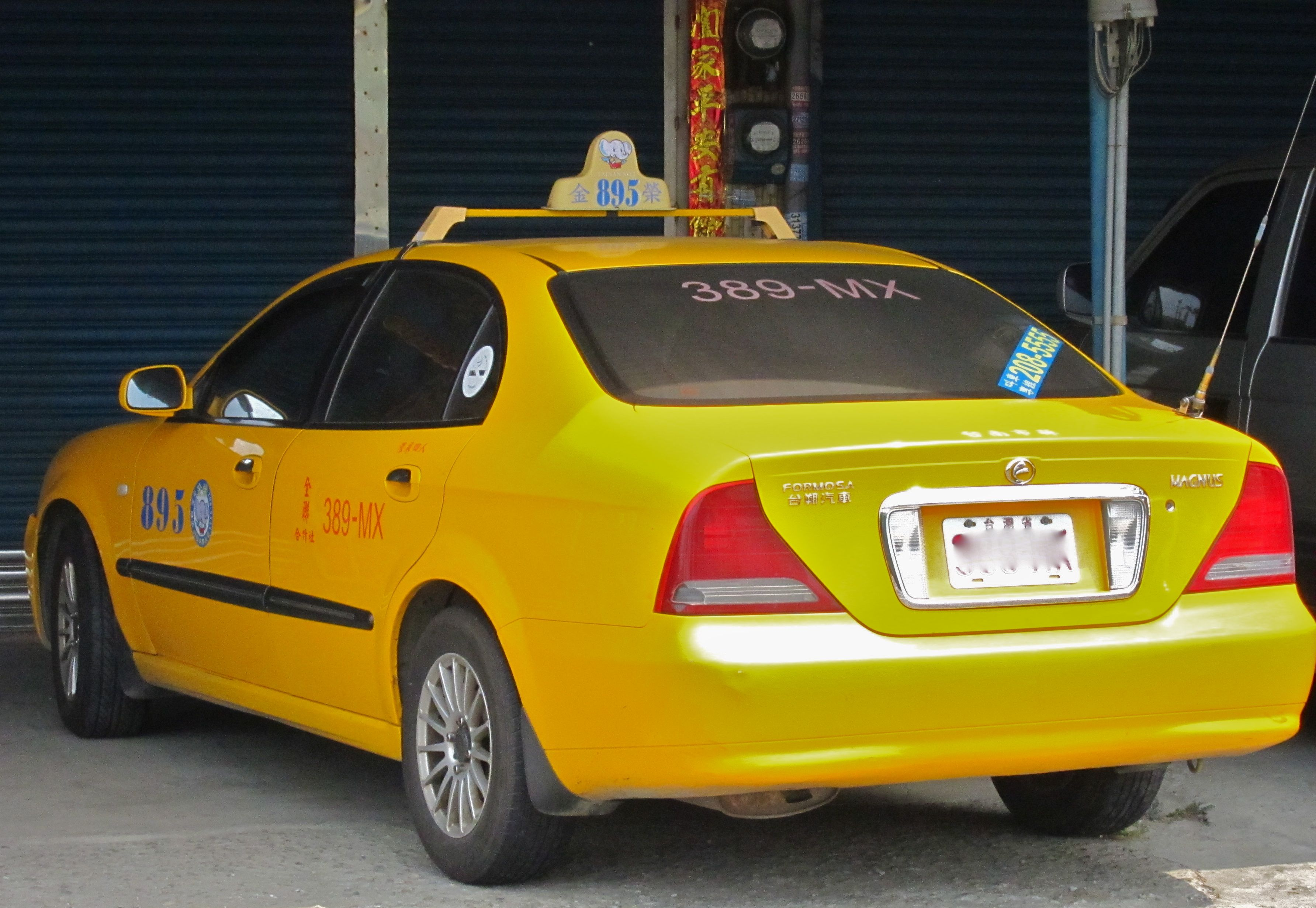 Rear quarter view of a yellow Formosa Magnus (really a Daewoo Magnus) taxi 389-MX in Taiwan.